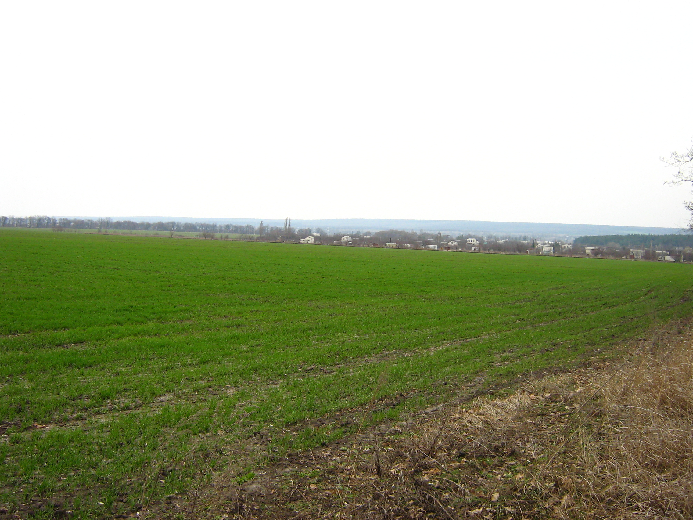 Winter wheat in early spring. The end of march.